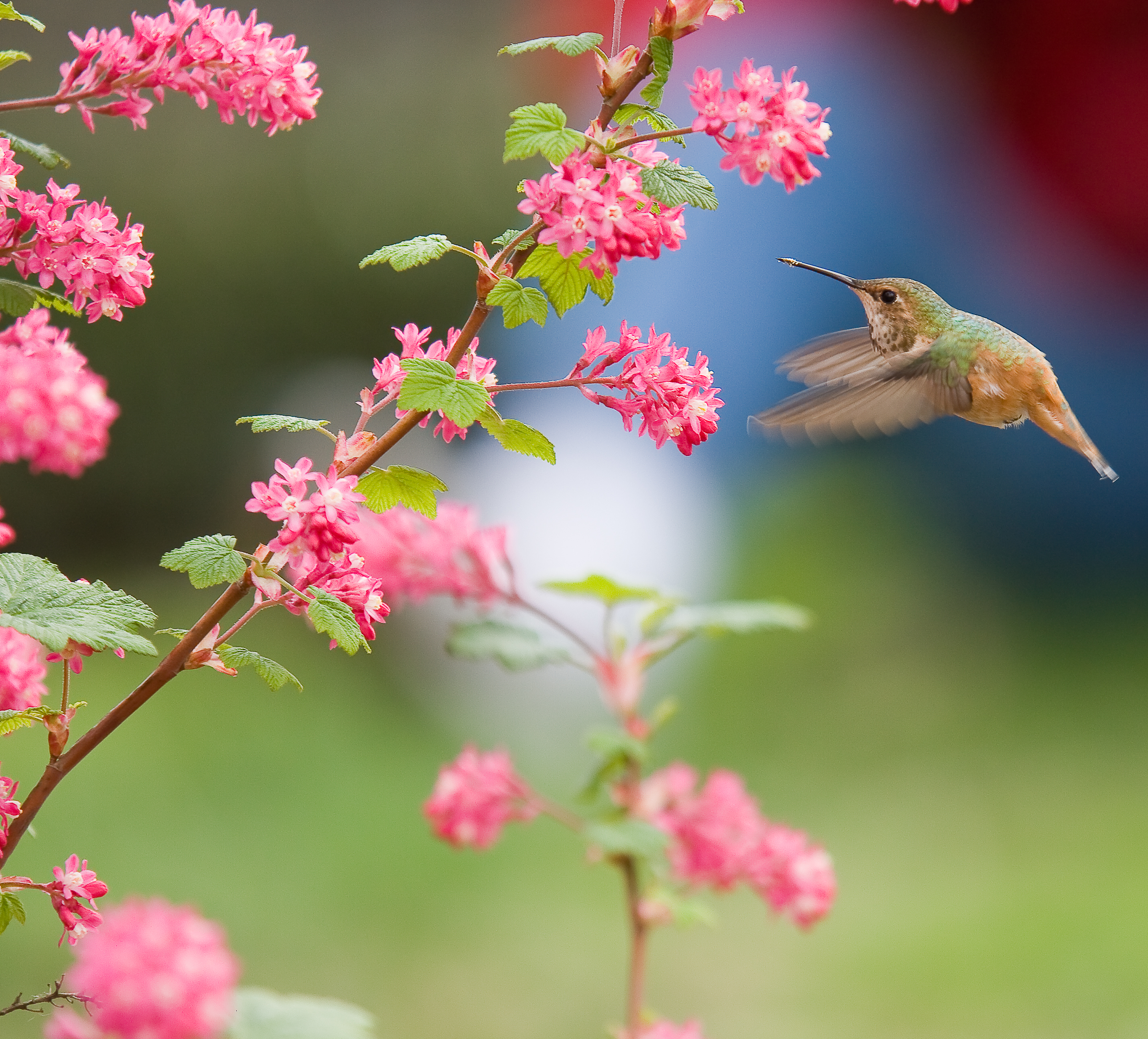 Rufous Hummingbird and Flowering Currant flowers. Vancouver, Canada.